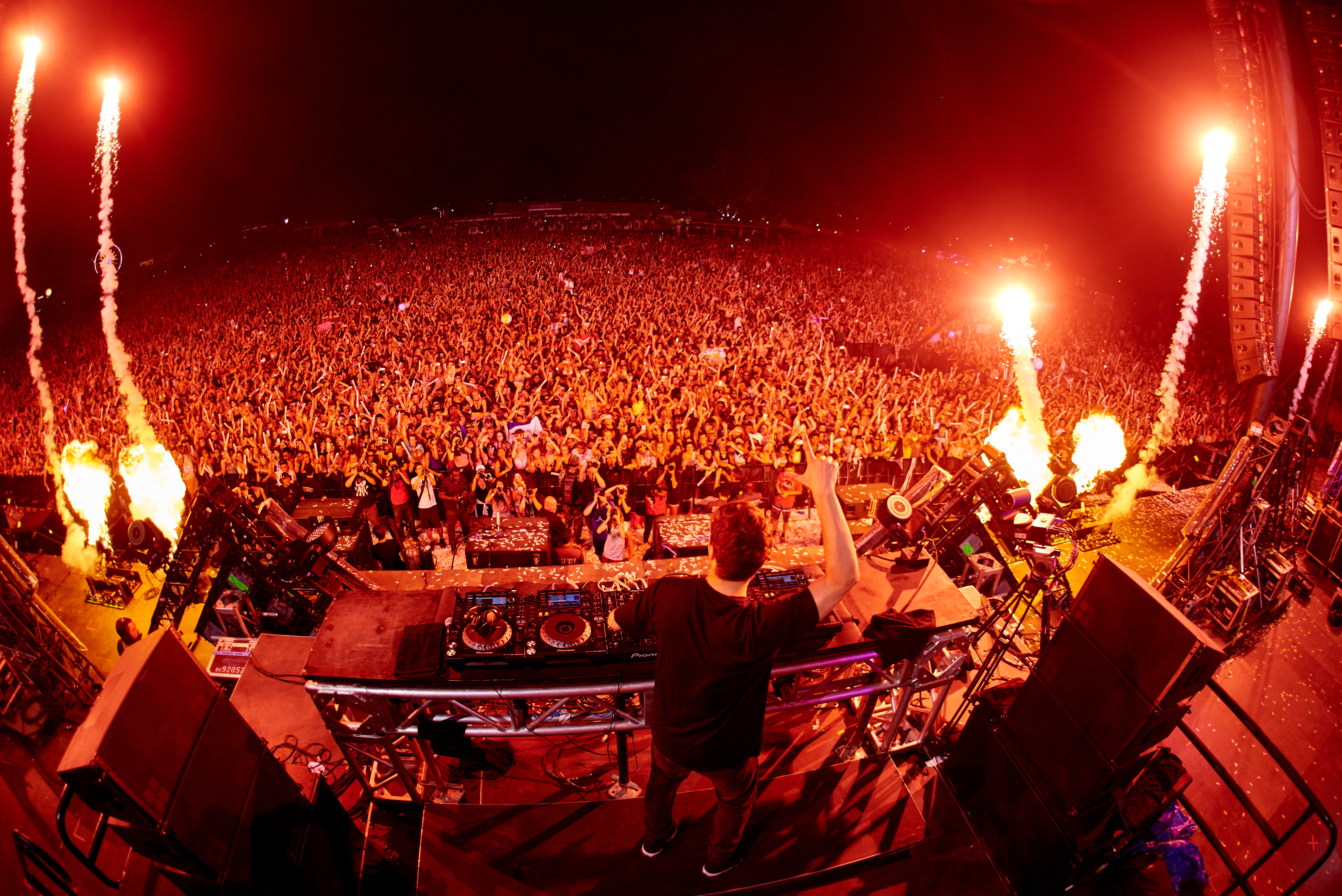 Martin Garrix playing live at VELD Festival 2016